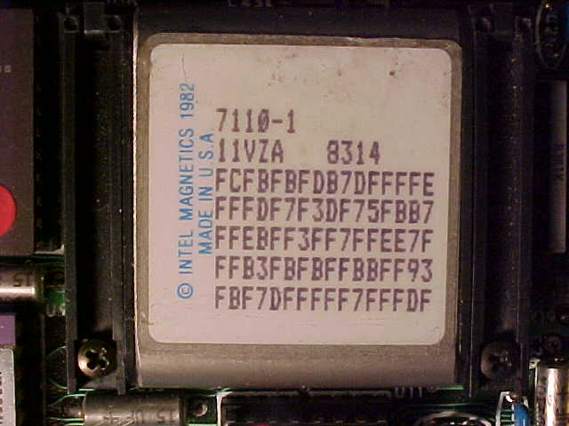 Intel Magnetics 7110 magnetic-bubble memory module (1 Megabit capacity)